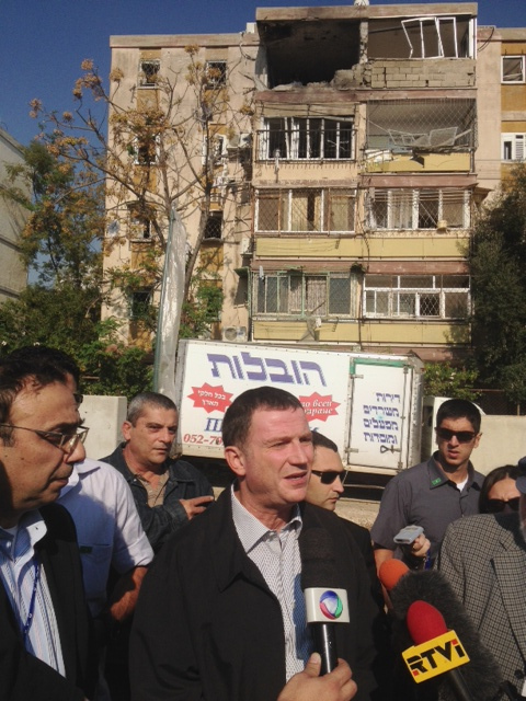 Photos by David Katz / The Israel Project